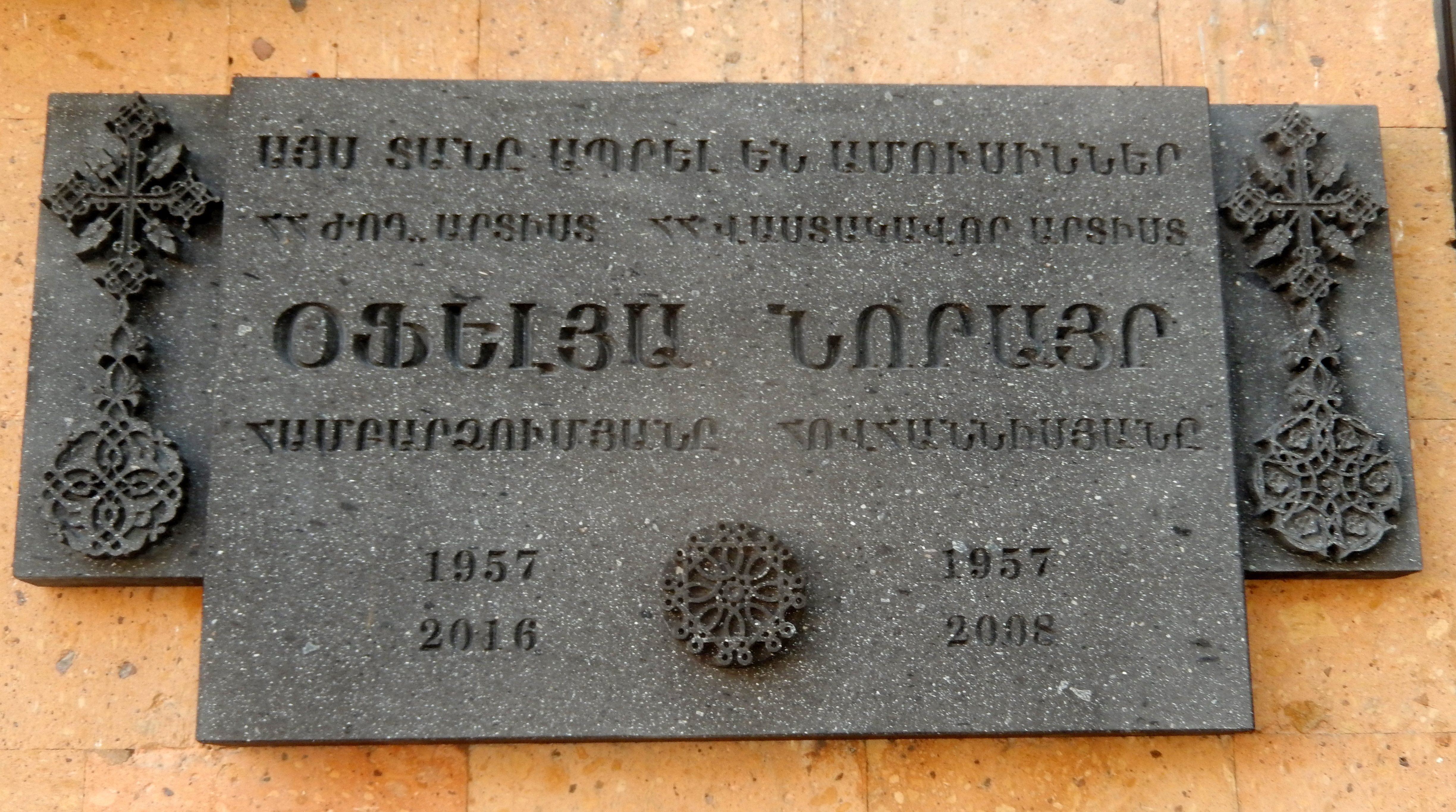 Ofelya Hambardzumyan's & Norayr Hovhannisyan's plaque in Yerevan on Tamanyan street, sculptor Emin Petrosyan